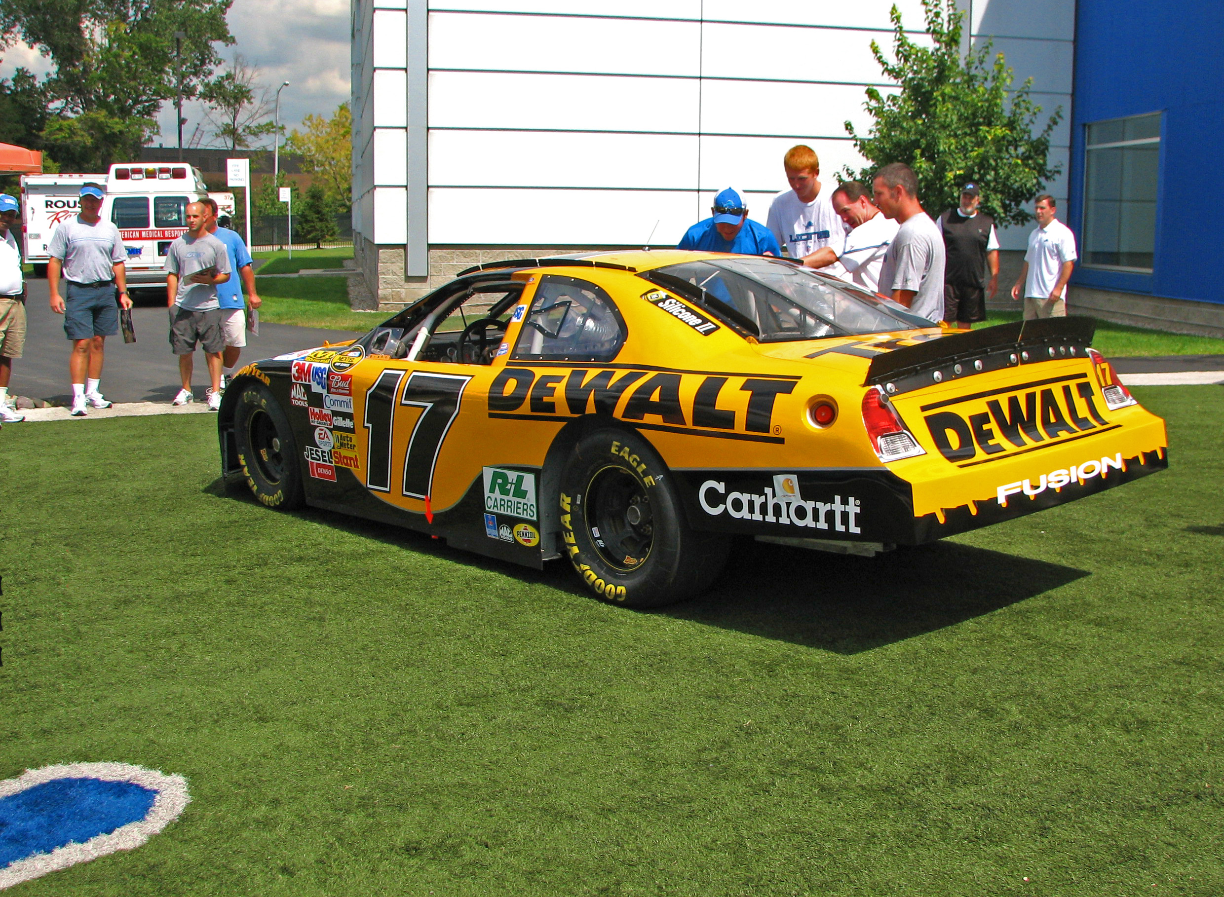 Why was Matt Kenseth at Lions practice? He drives a Ford. William Clay Ford owns the Lions. You figure it out.